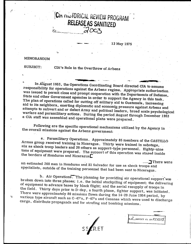 Internal CIA memo, released under the Freedom of Information Act, describing the CIA's role in the overthrow of Guatemalan President Jacobo Arbenz. (1 of 5)